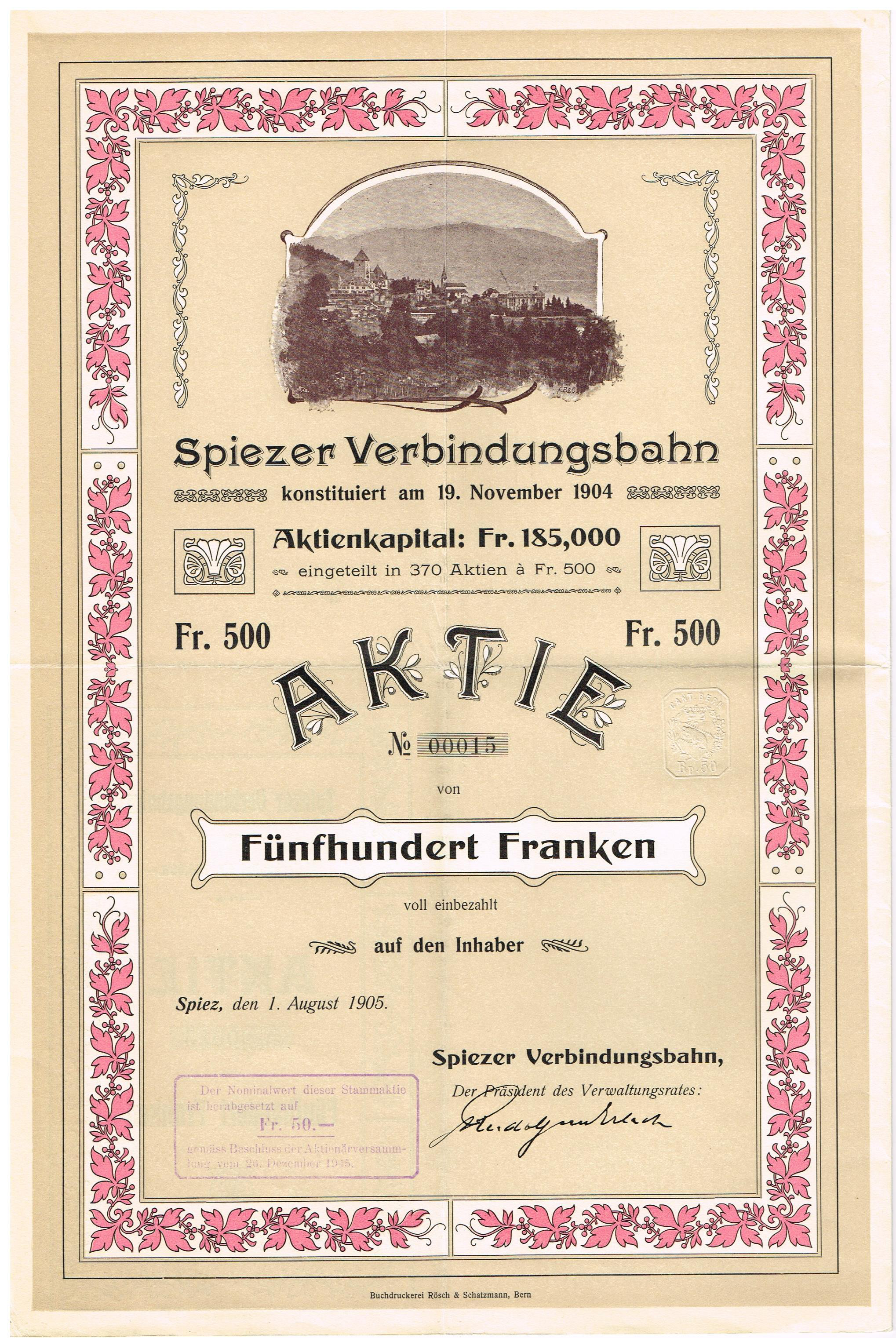 Share of the Spiezer Verbindungsbahn, issued 1. August 1905